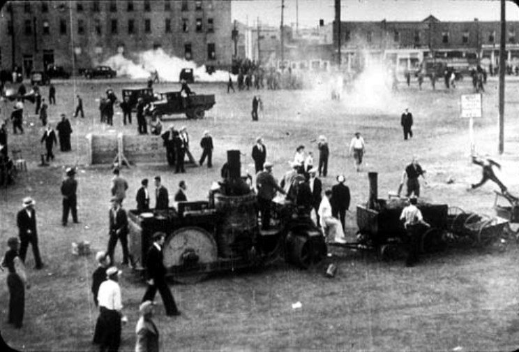 Regina Riot, July first, 1935